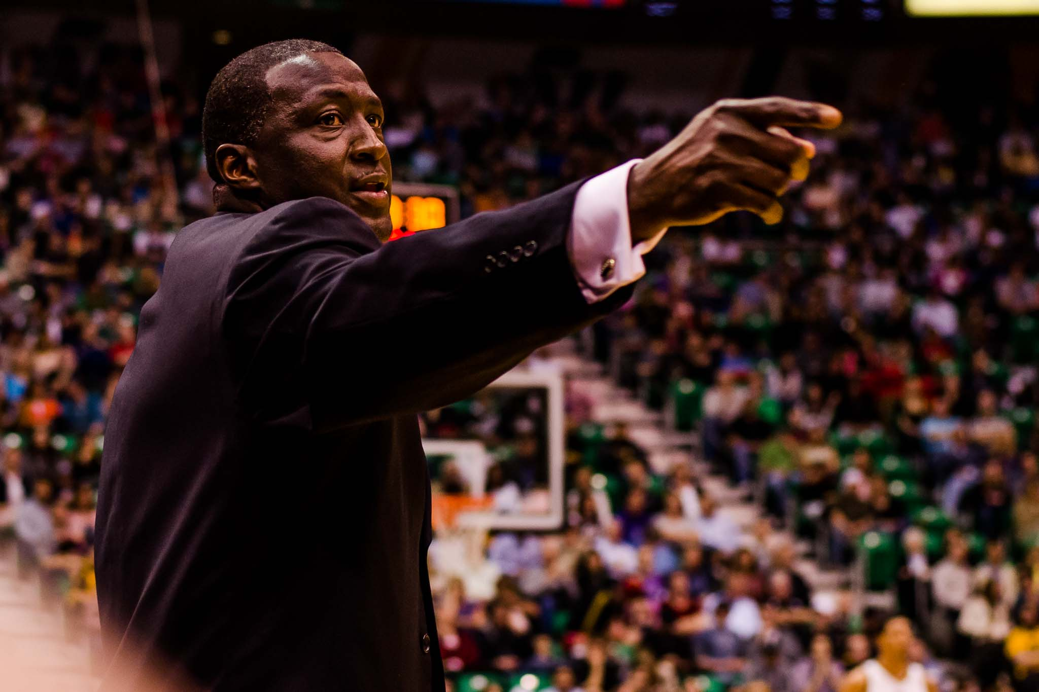 2013 Utah Jazz basketball. EnergySolutions Arena in Salt Lake City.